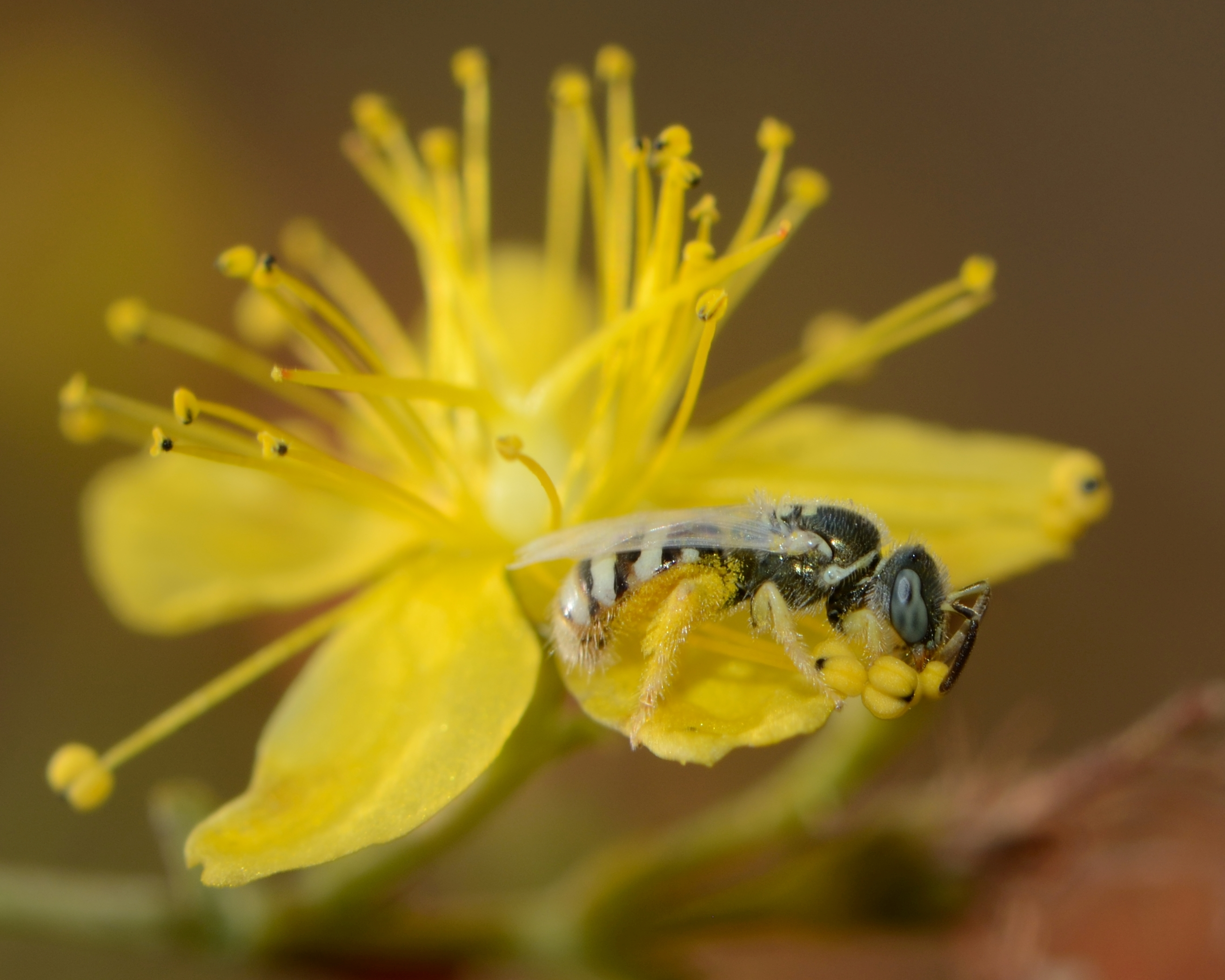 Ceylalictus variegatus, female collecting pollen from Hypericum triquetrifolium, Rehovot, Israel, September 3, 2011. Det. Alain Pauly 2012.